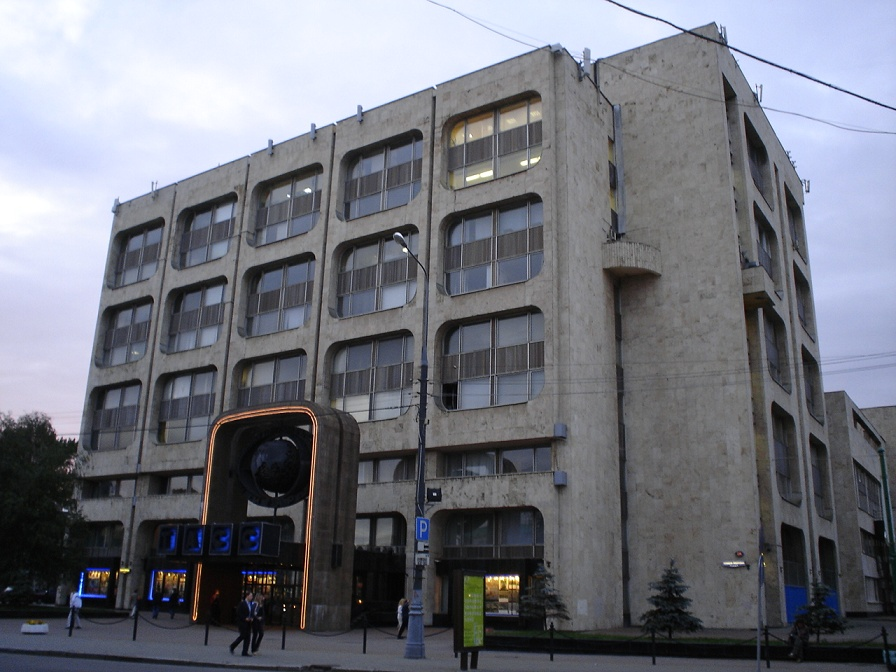 TASS Building